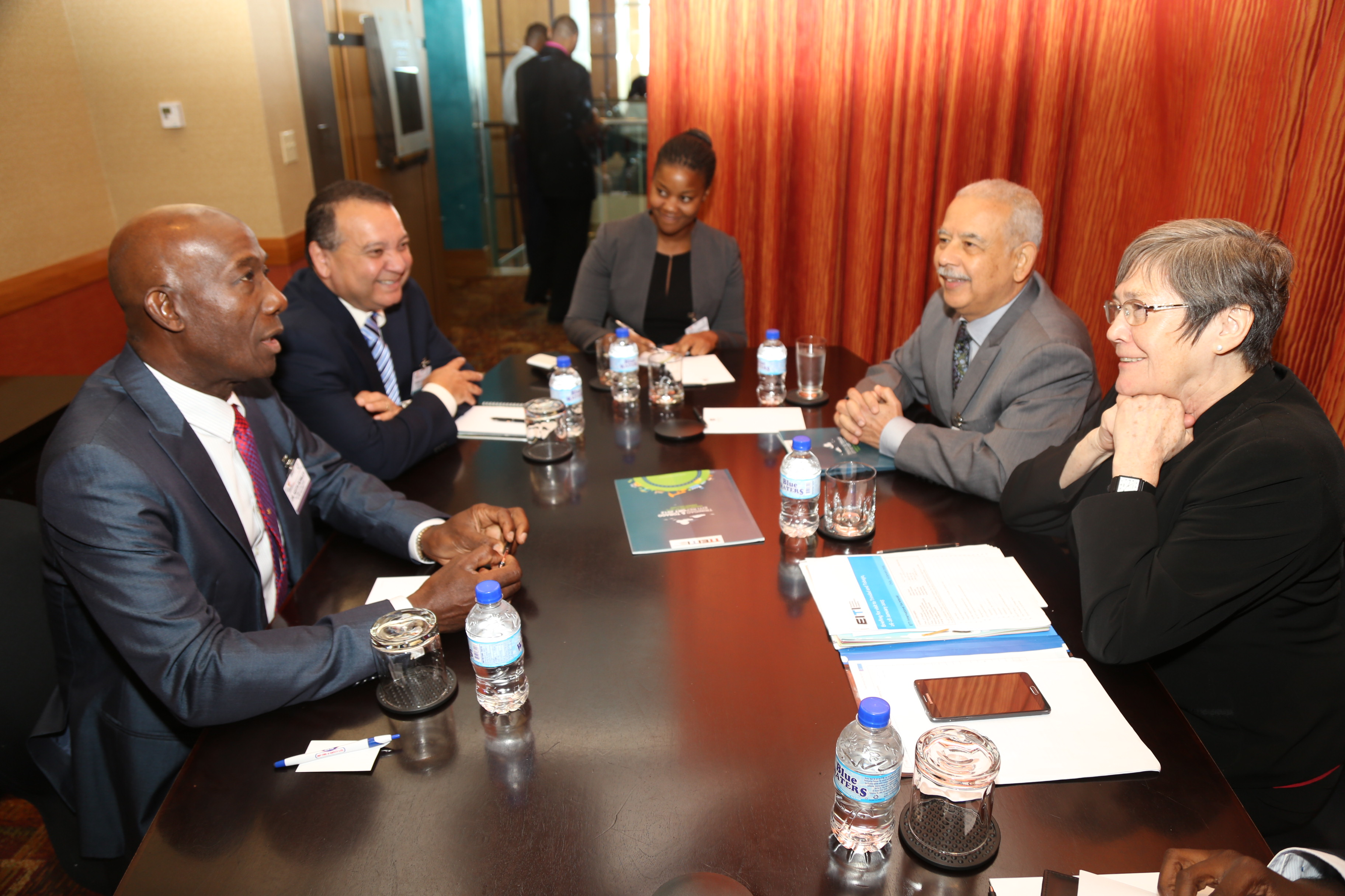 Clare Short of EITI meeting with Dr. Keith Rowley and Mr. Khan in Trinidad and Tobago. Source & owner: Trinidad & Tobago EITI (TTEIT) - to find out more